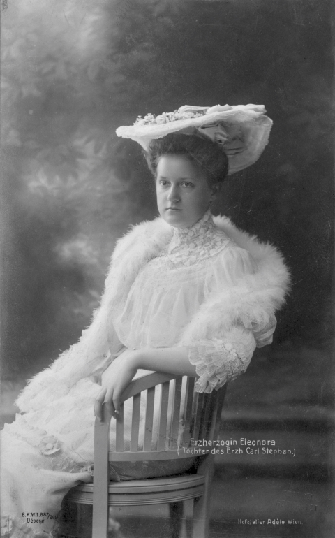 Portrait of Archduchess Eleonora of Austria (1886-1974)